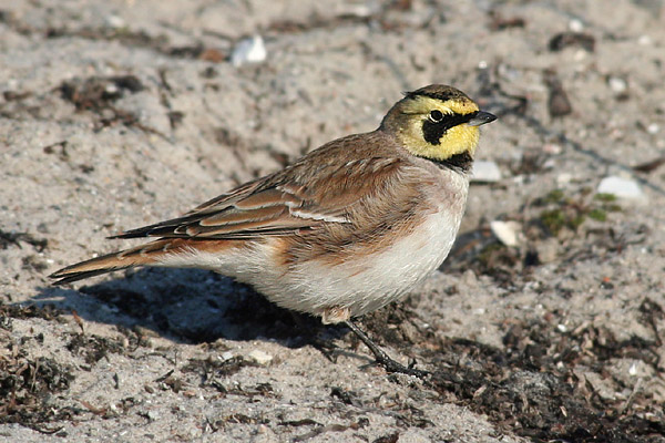 Shore lark (Eremophila alpestris) photographed in Skåne, Sweden.